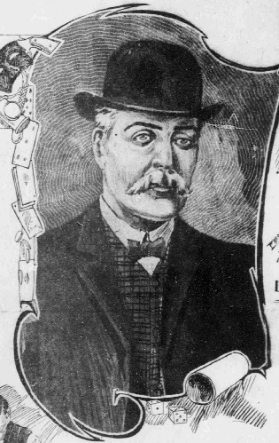 etching of Shang Draper, New York saloon keeper and underworld figure in "Who's Masquerading In Paris As "Shang Draper", The Squarest Gambler In New York?"